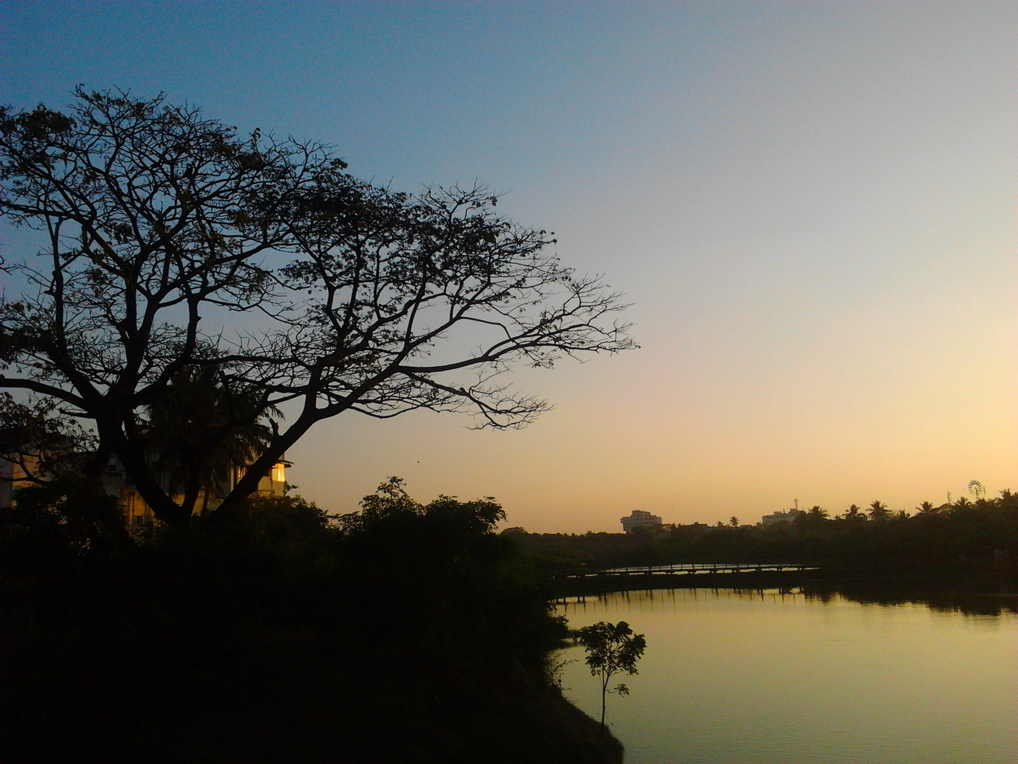 Photoed using Samsung Wave 525.